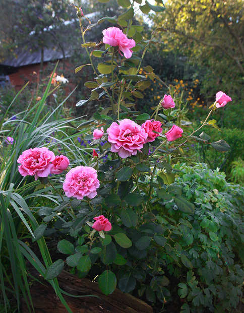 Rosa 'Princess Alexandra' (syn. 'POUldra'). Russia, Vladimir Oblast